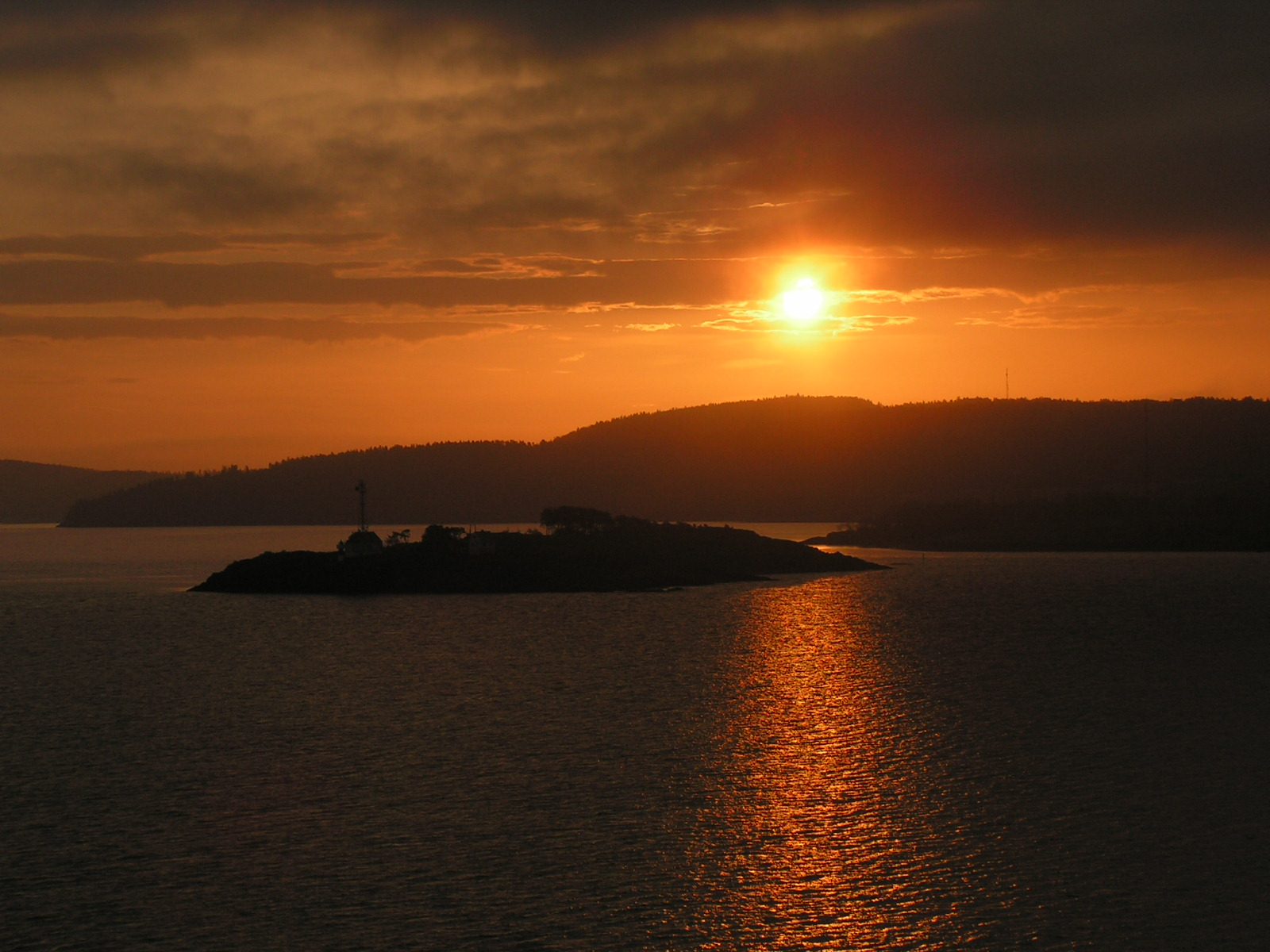 Sunrise in the oslofjord